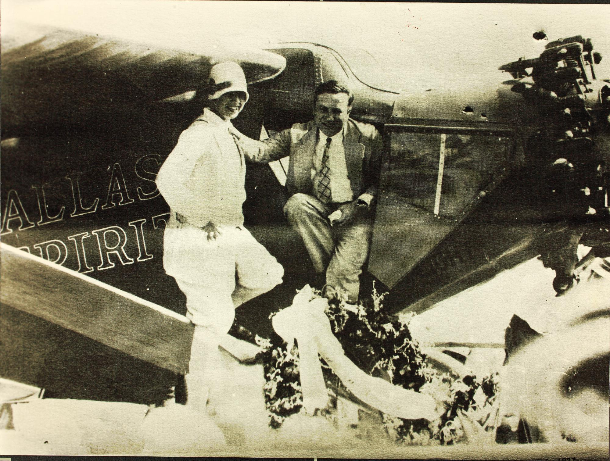 Catalog #: 10_0014634 Title: Dole Air Race Additional Information: Swallow ""Dallas Spirit"" NX 941 Tags: Dole Air Race, Swallow ""Dallas Spirit"" NX 941 Repository: San Diego Air and Space Museum Archive